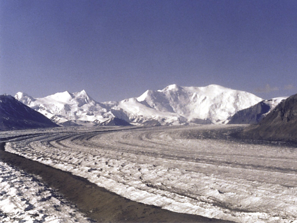 Mount Blackburn (right), Atna Peaks (twin summits at left center), and Parka Peak (icy summit far left) rise above the Nabesna Glacier, Wrangell-Saint Elias National Park and Preserve, Alaska, United States